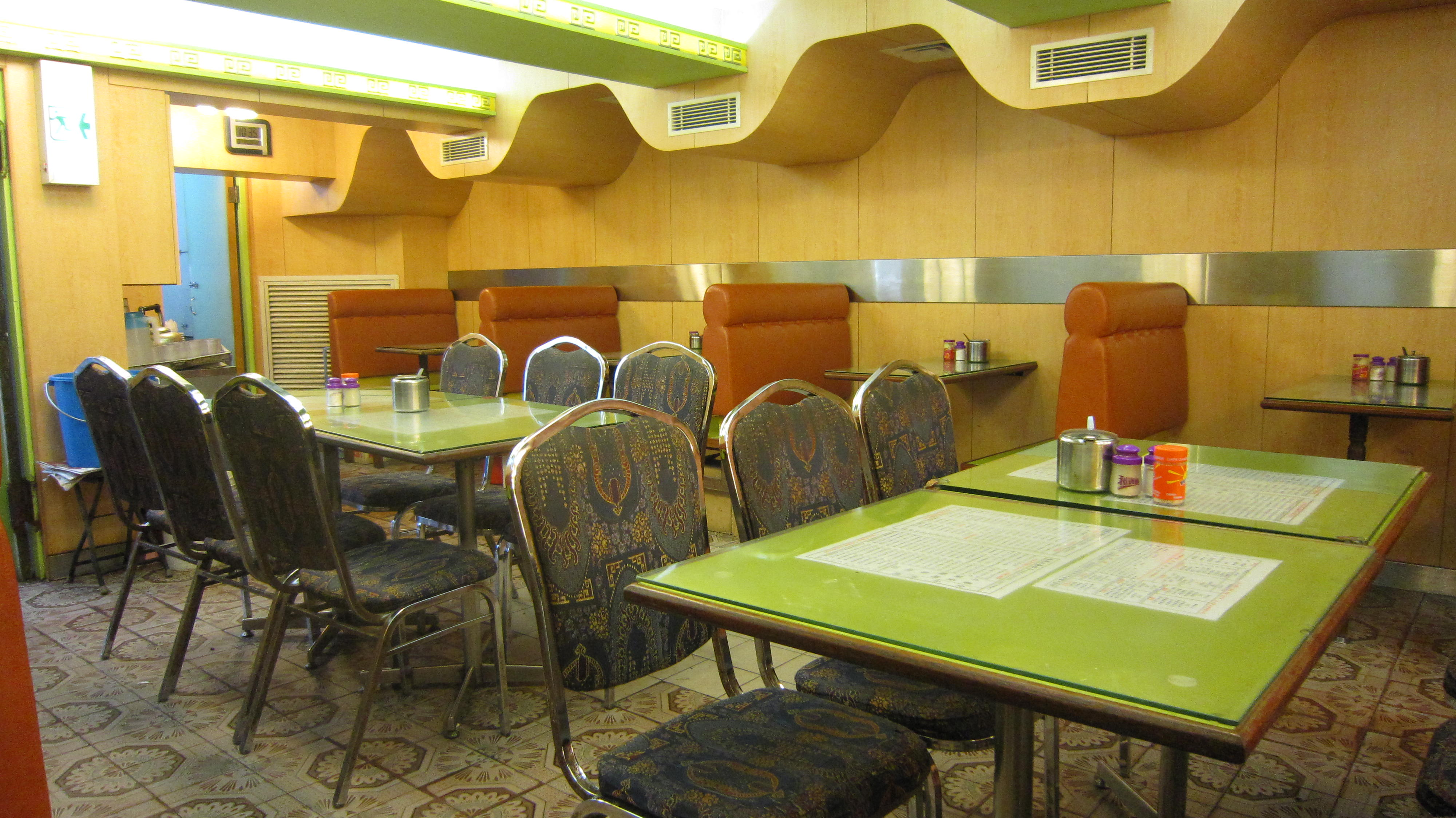 interor look of a Cha Chaan Teng in Mongkok, Hong Kong